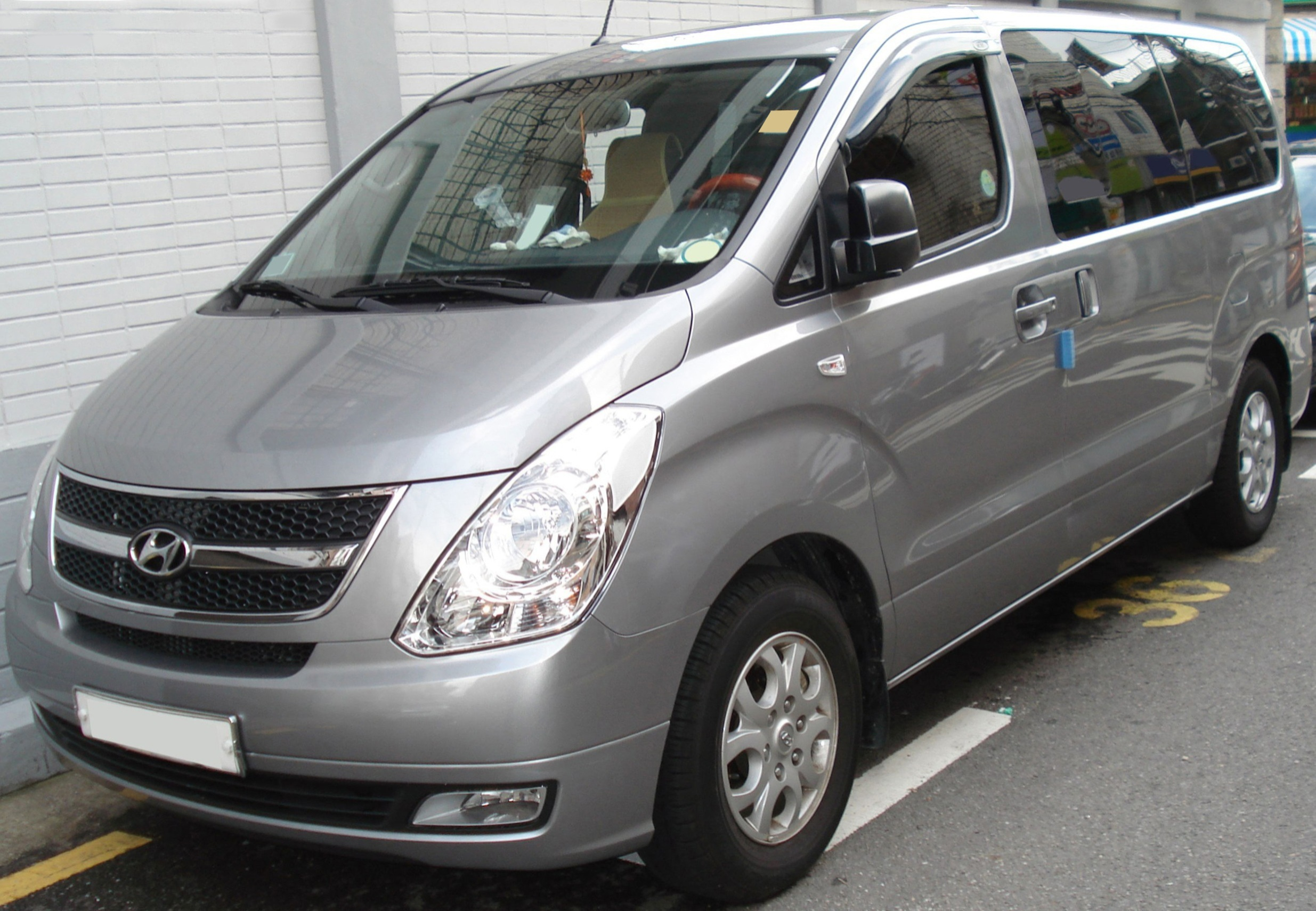 Hyundai Grand Starex